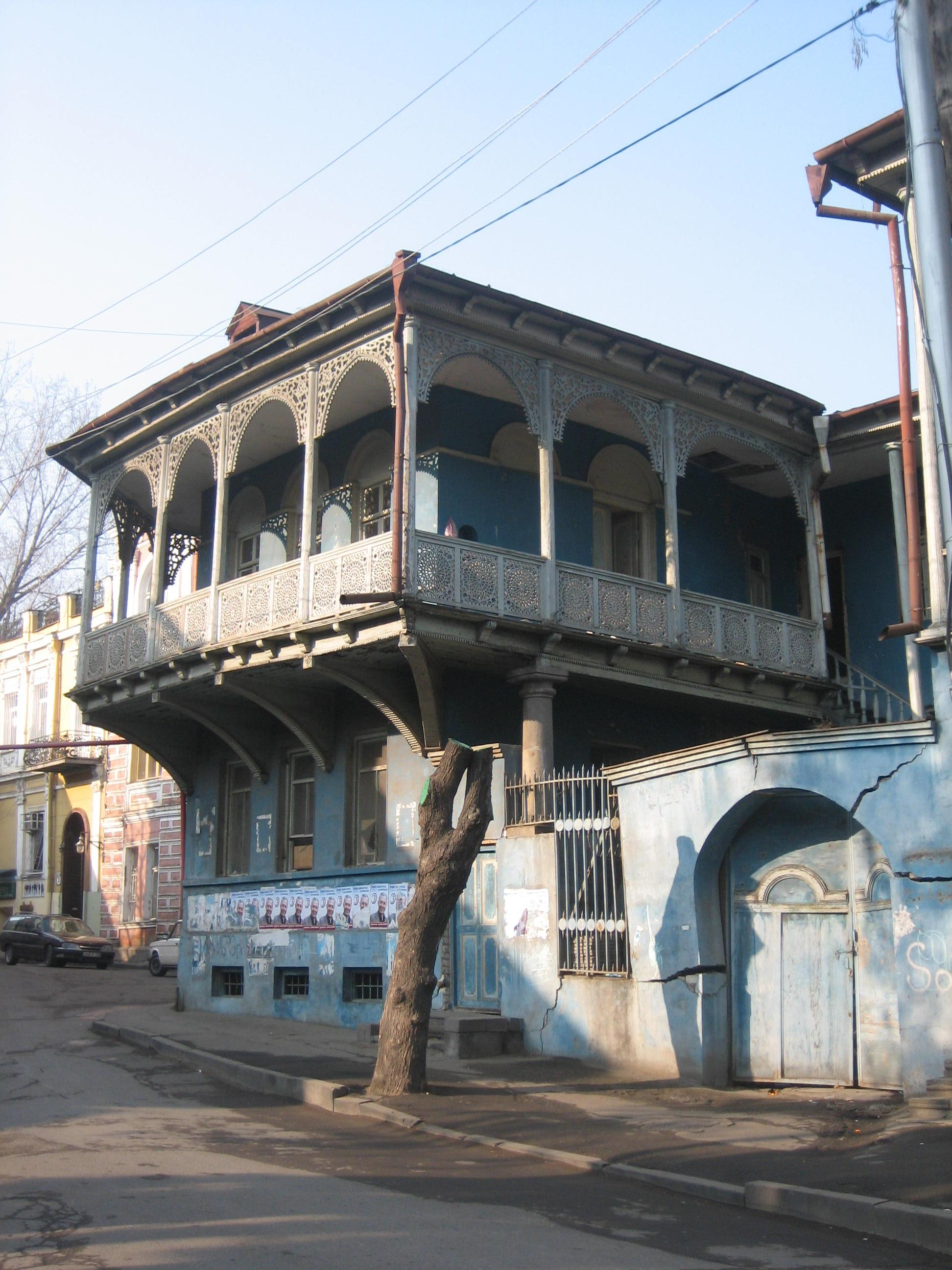 Traditional house in Tbilisi